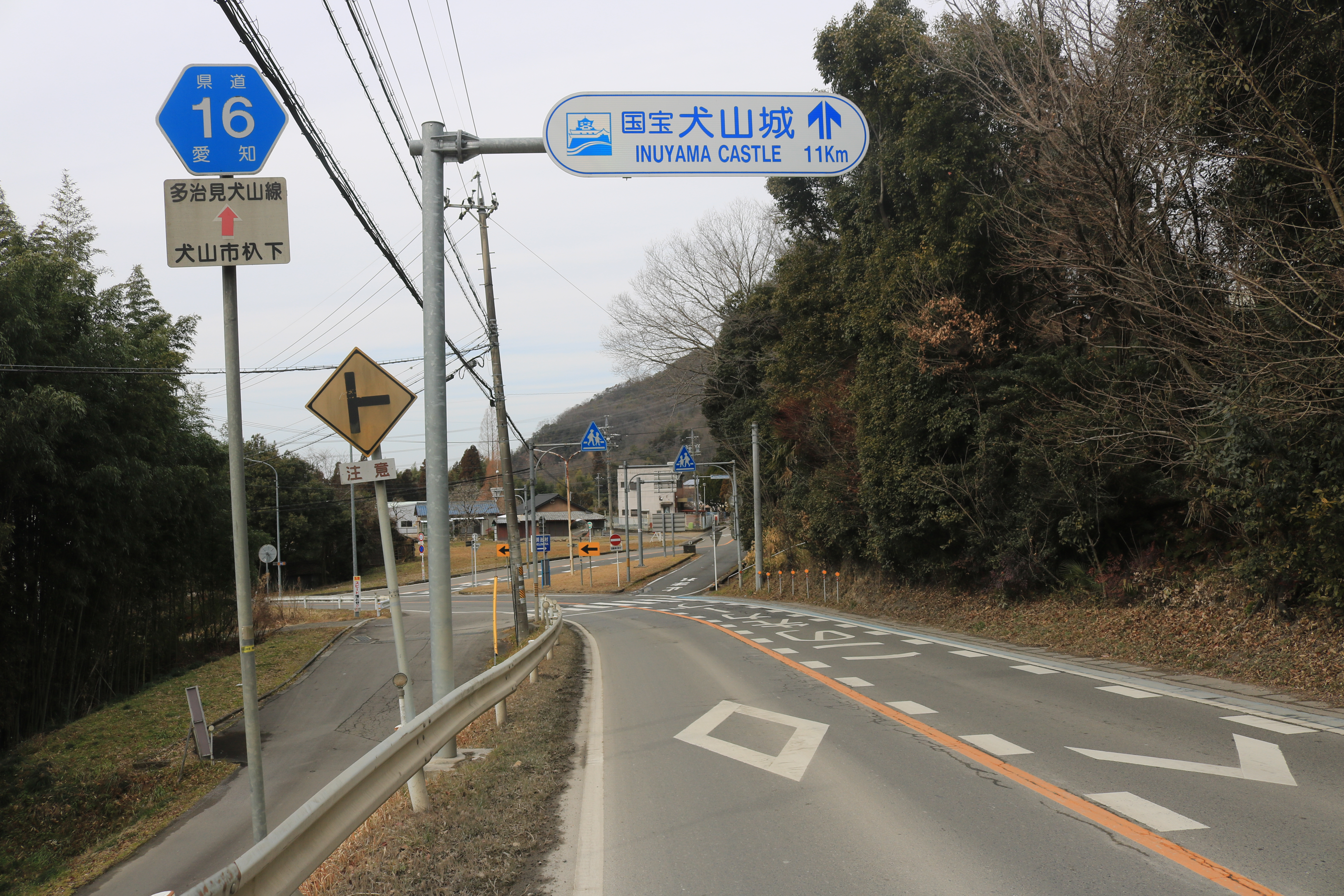 Aichi Prefectural Road Route 16 in Irishita, Inuyama, Aichi prefecture, Japan.